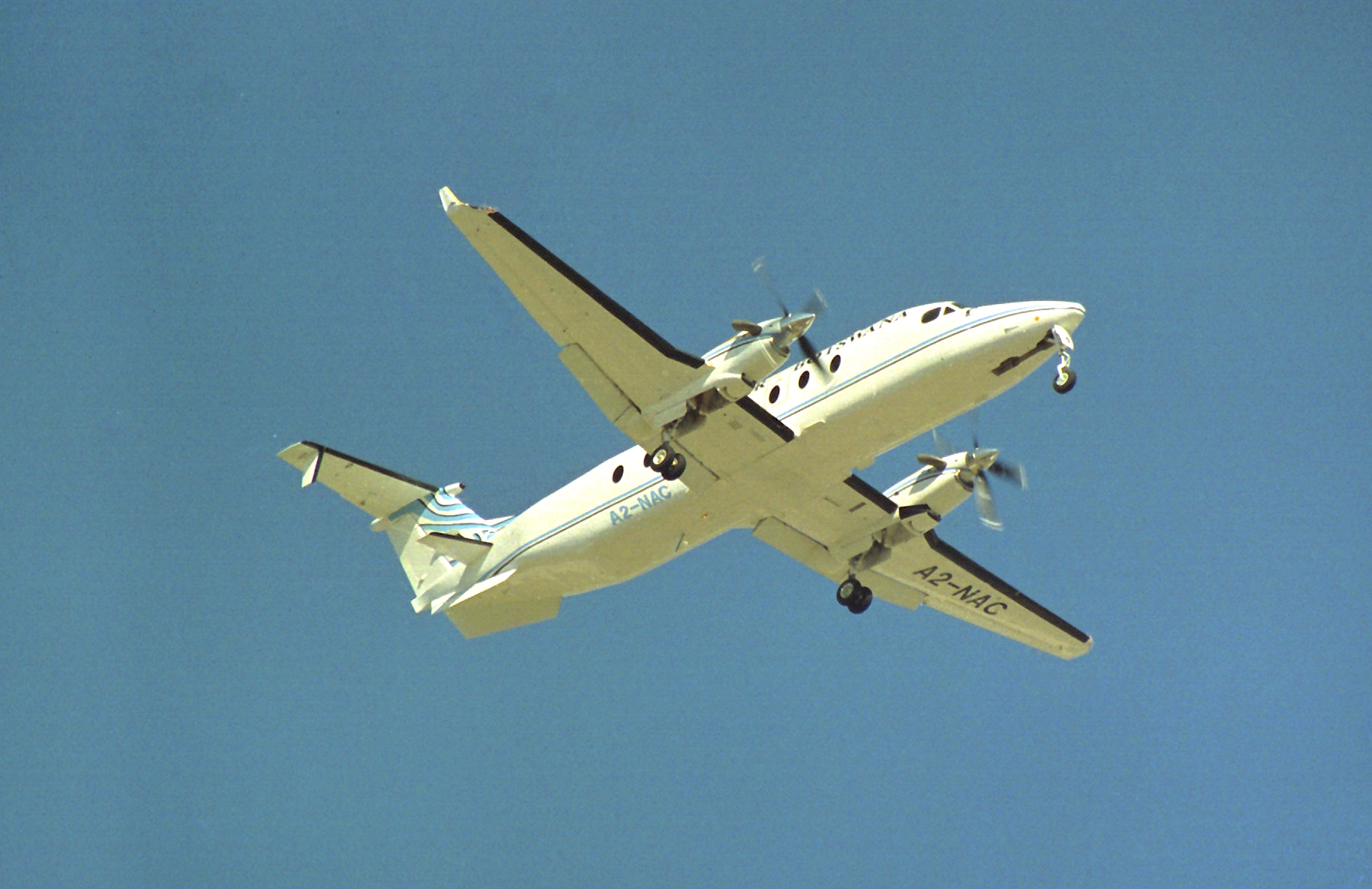 Air Botswana Beech 1900D A2-NAC